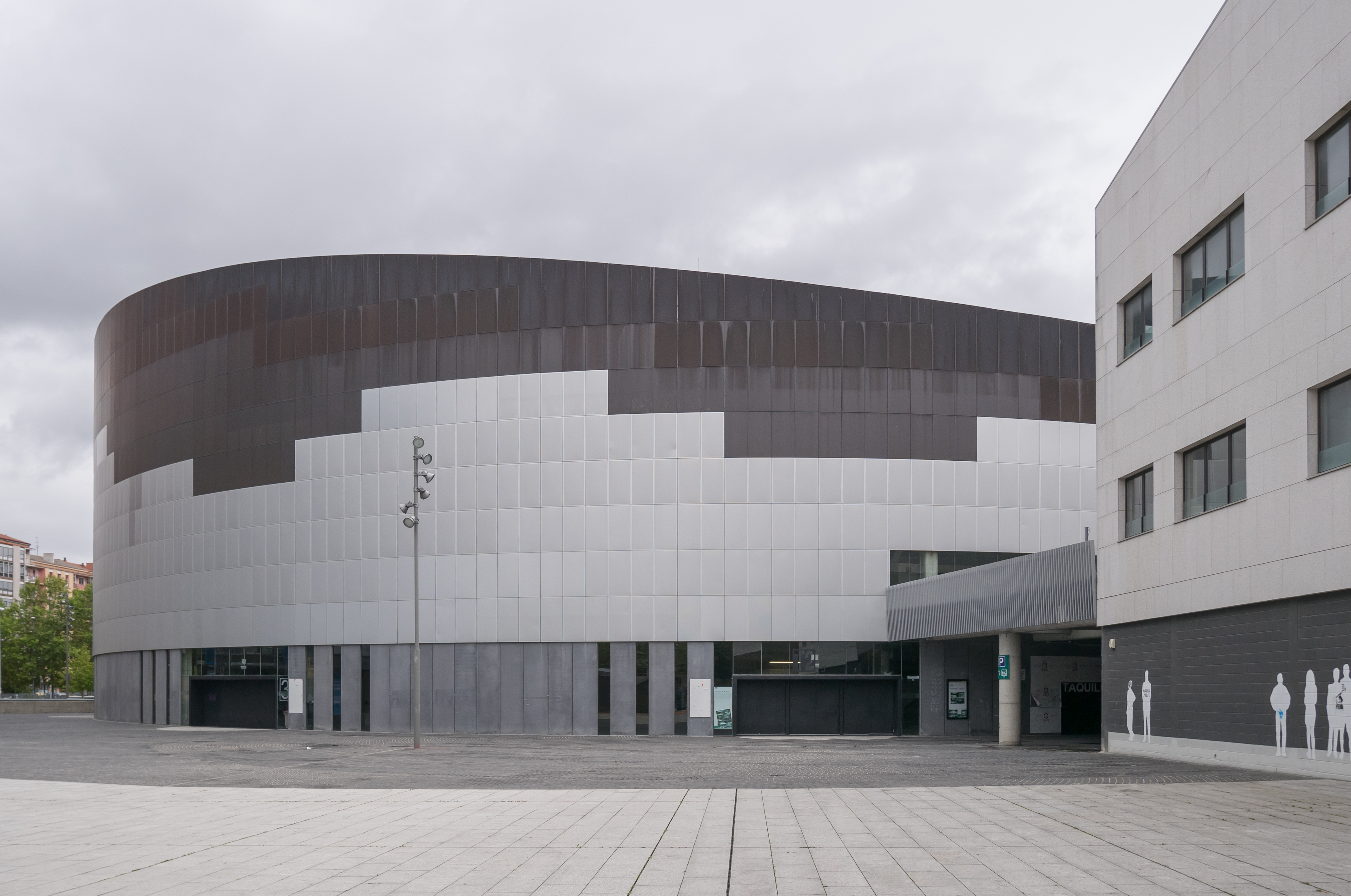 Iradier Arena/Plaza de Toros (bullring and multipurpose hall) in Vitoria-Gasteiz. Basque Country, Spain